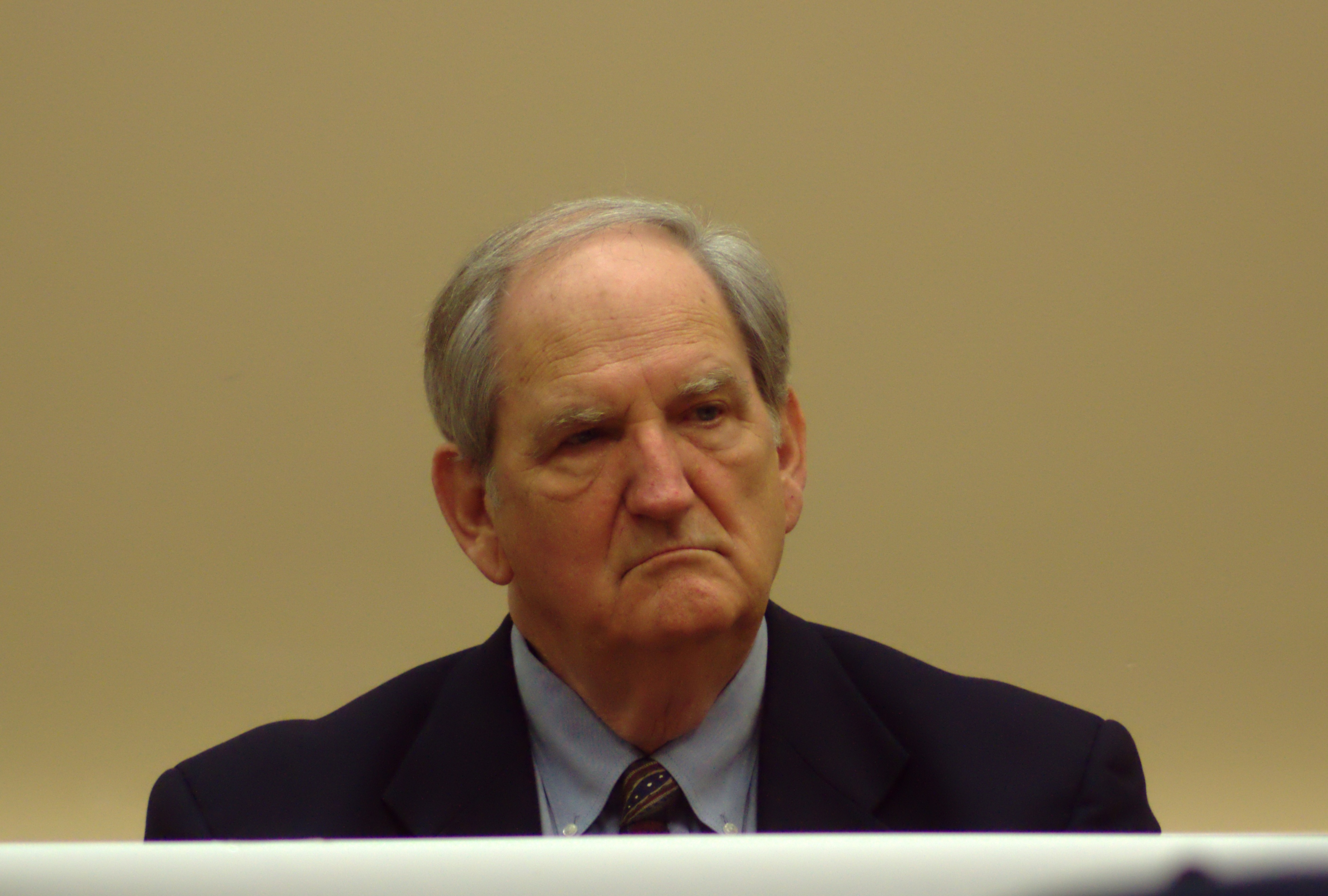 NH Republican US Senate Candidates Forum @ Merrimack